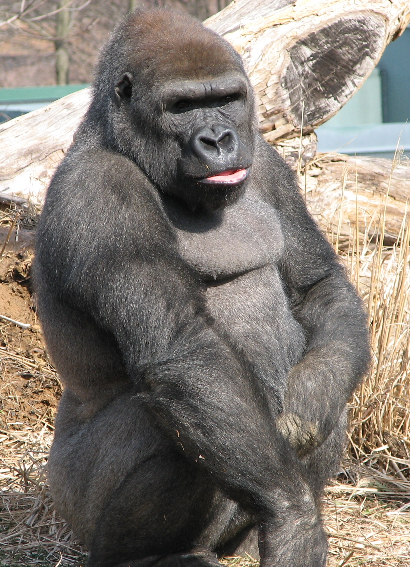 Western Lowland Gorilla at the Louisville Zoo